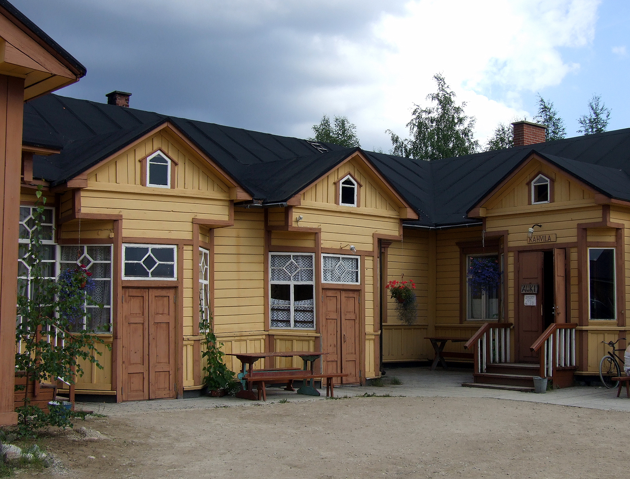 An old shop Jalavan kauppa in Taivalkoski village, Finland. The shop has been established 1883 and has been with the same family ever since. Nowadays the site also hosts a café for the tourists.